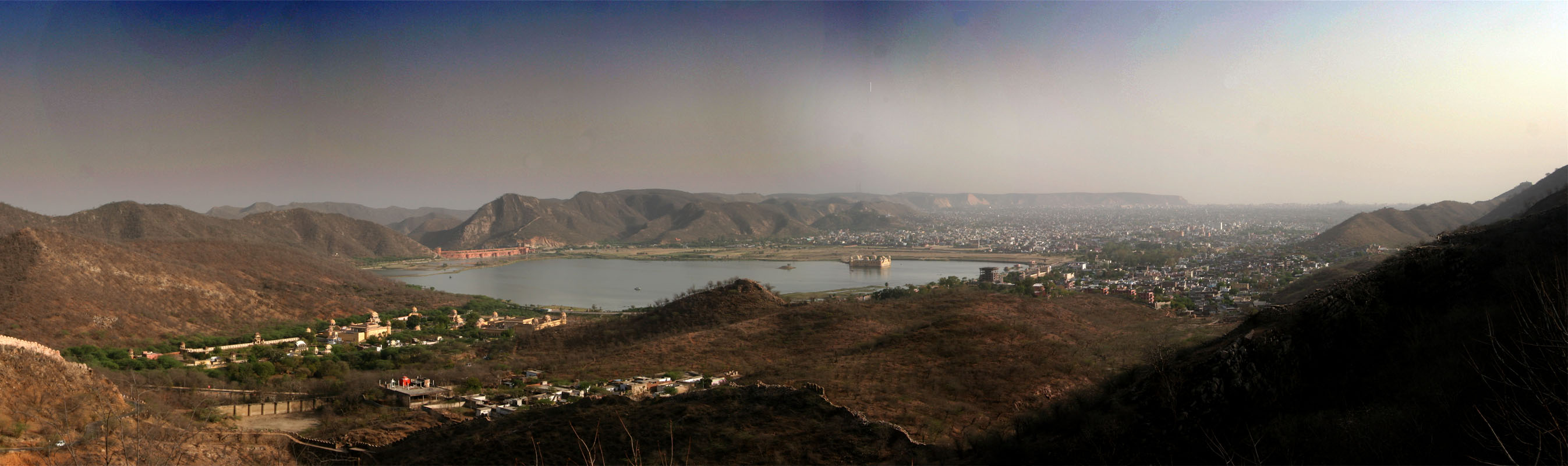 Panoramic view of Jaipur from the surrounding hills